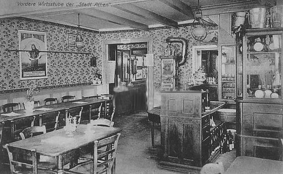 Greek wine tavern "City of Athens" in Neckargmünd, 1910